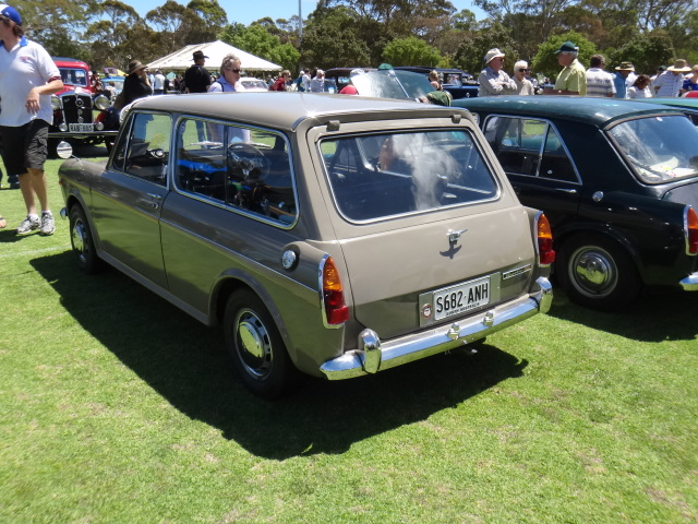 I forgot I had these on my computer! I've put these up for Riley - He'll know more about these than what I would. I don't think these were officially sold in Australia and if they were, I don't recall ever seeing one as a kid! But this was in mint condition and I found myself drawn to this.